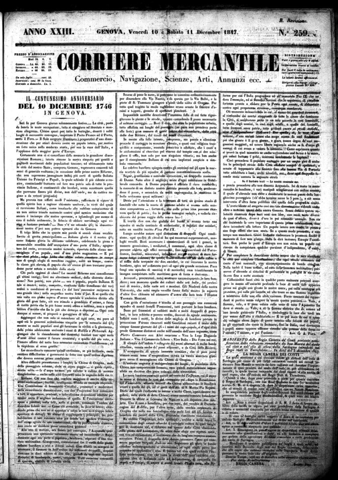 first page